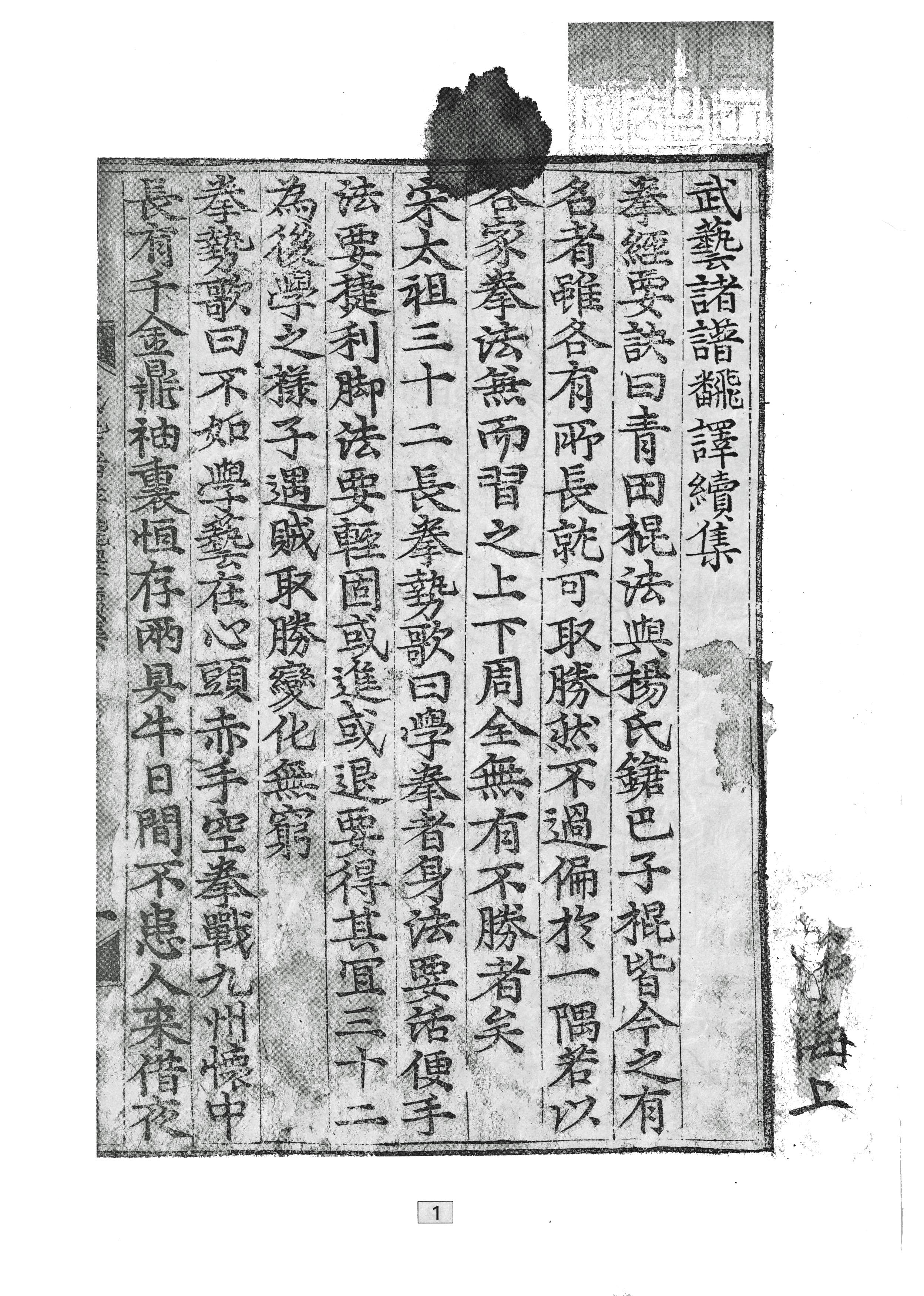 Muye Jebo - 1st page of commentary